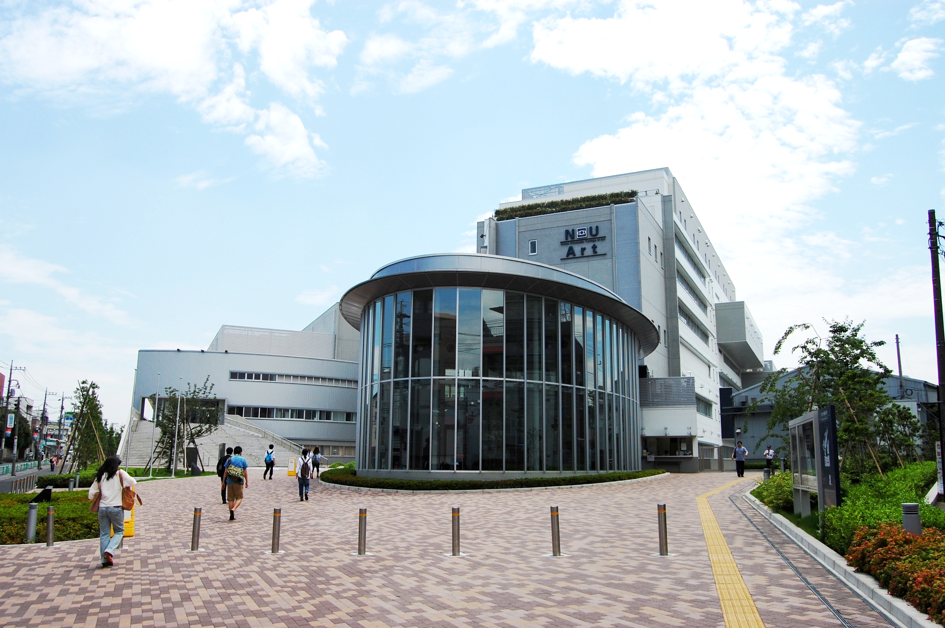 Nihon University College of Art in Nerima, Tokyo, Japan